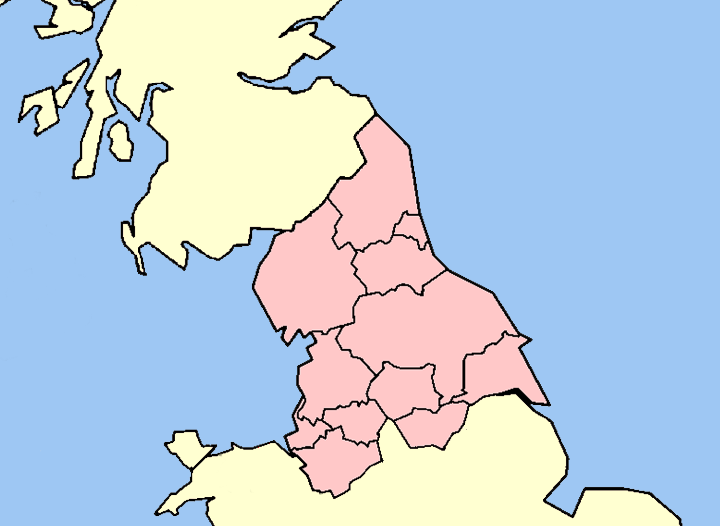 Map of Northern England within Great Britain.